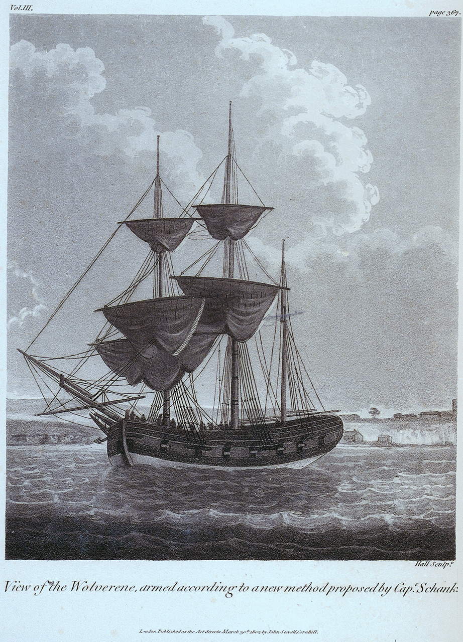 View of the Wolverne, armed according to a new method proposed by Capt Schank Vol.III page 367.